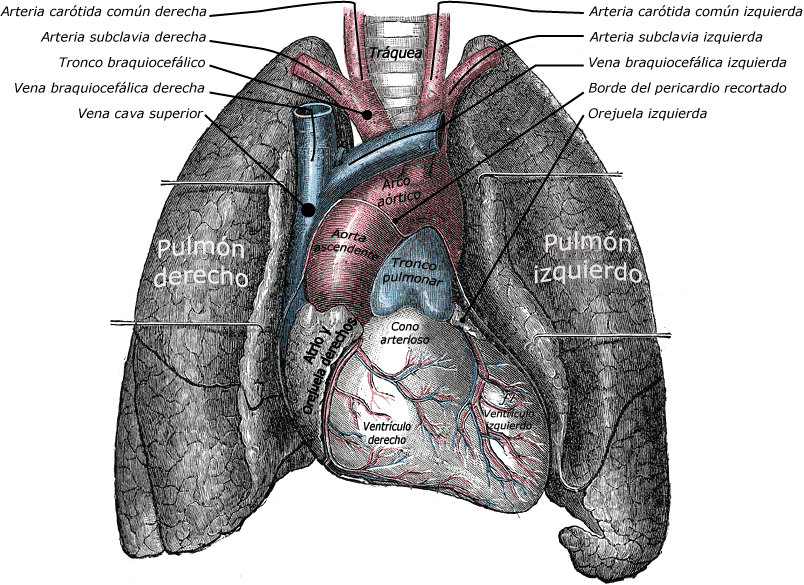 Front view of heart and lungs.